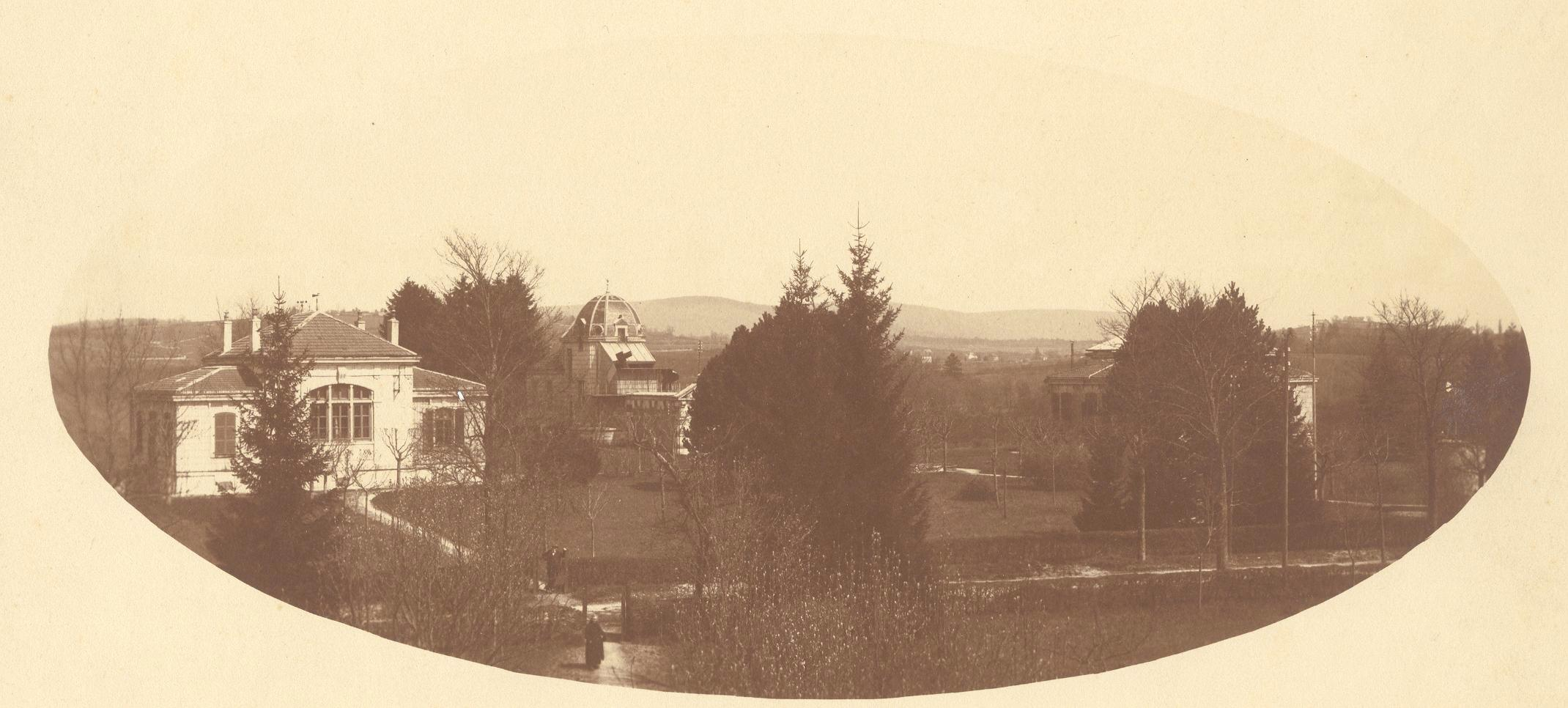 General view of the observatory of Besançon (Doubs, France), at the end of the 19th century.